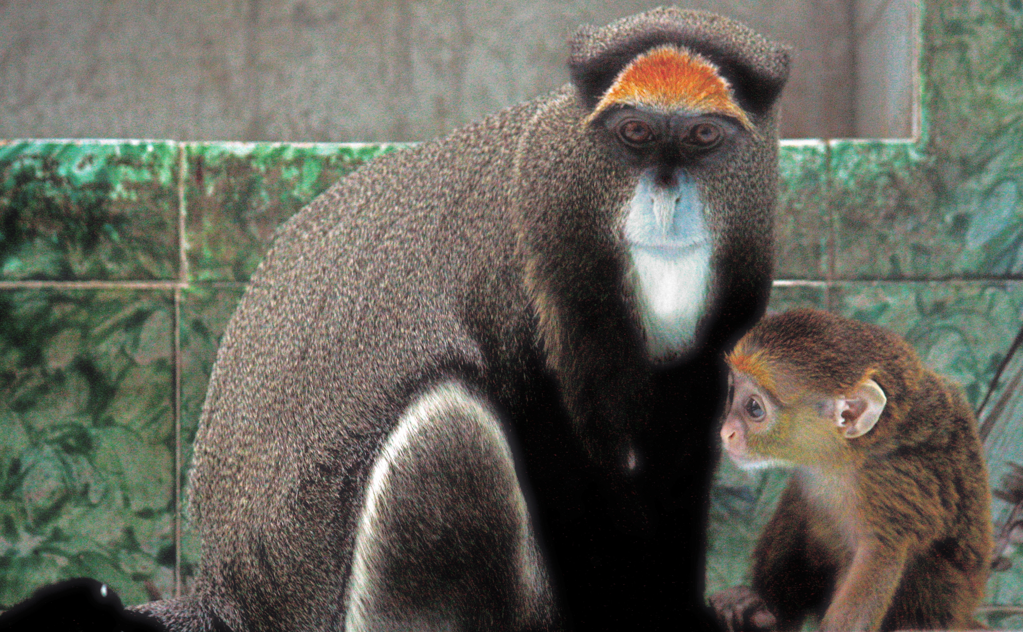 Cercopithecus neglectus